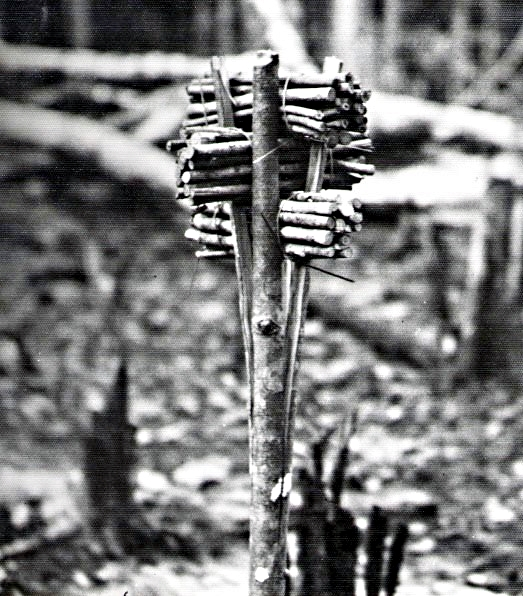 My father, Dr, Alfred Edward (Ted) Hill took this photo while travelling through Suriname doing a medical survey in 1955